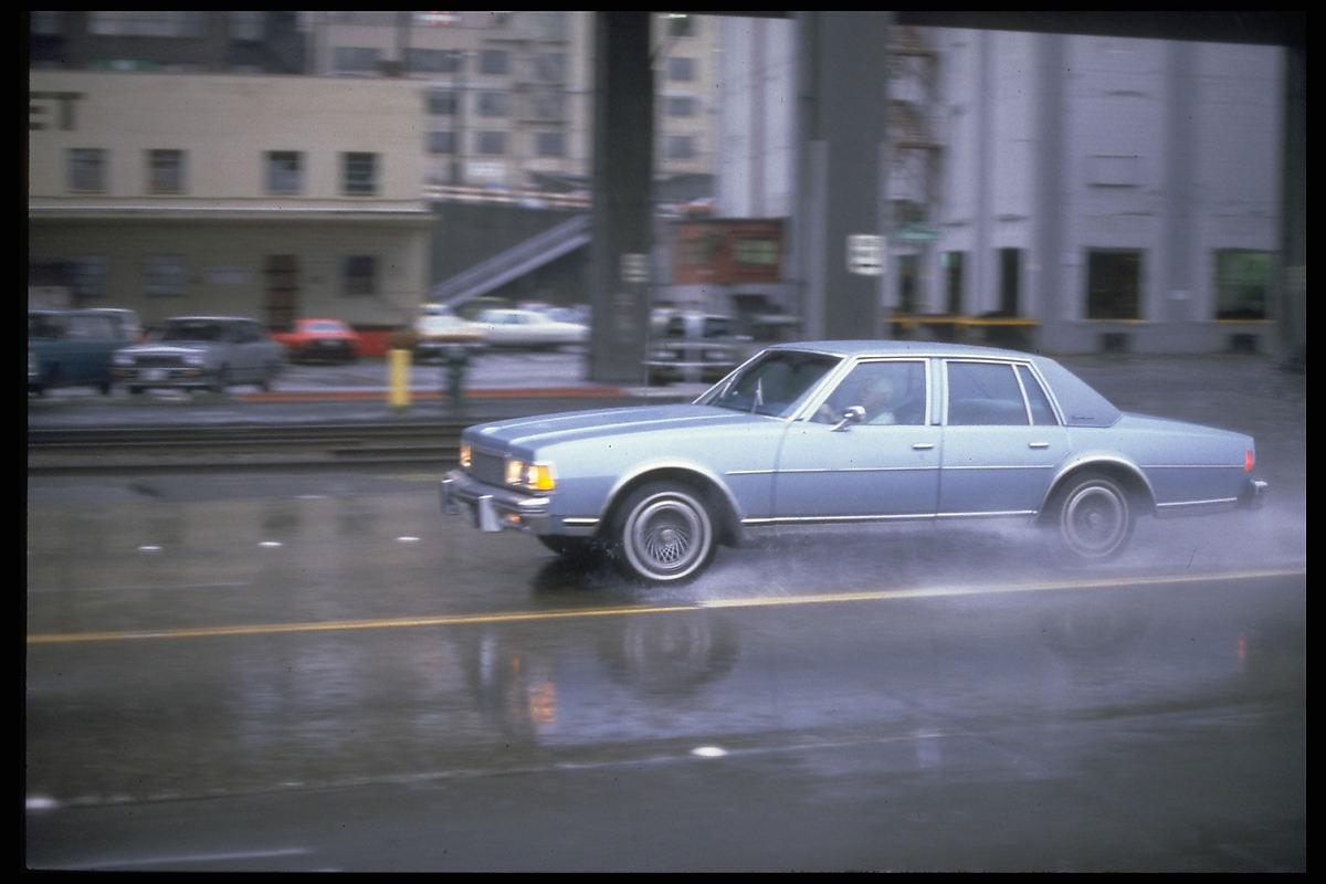 Car in rain, Alaskan Way, Seattle, Washington, 1980s. Item 149279, Water Department Digitized Slides (Record Series 8200-14), Seattle Municipal Archives.